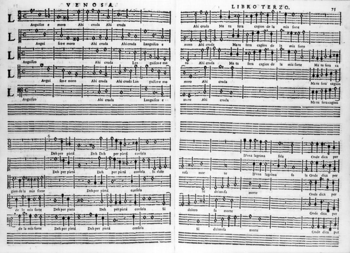 Gesualdo - Languisco e moro